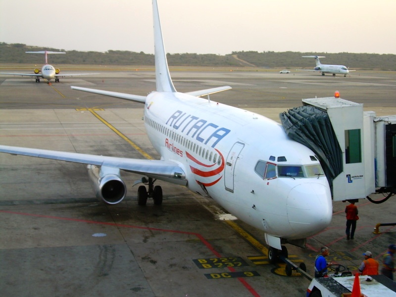 Boeing 737-200 -taken at Simon Bolivar International Airport, Maiquetia, Venezuela.